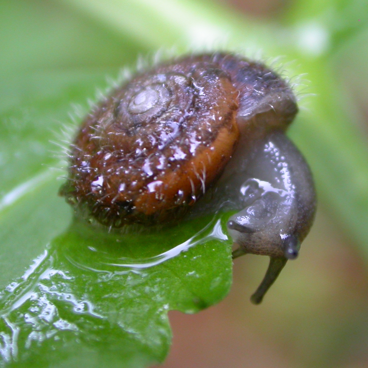 Photo of Trochulus villosus on the leaf.